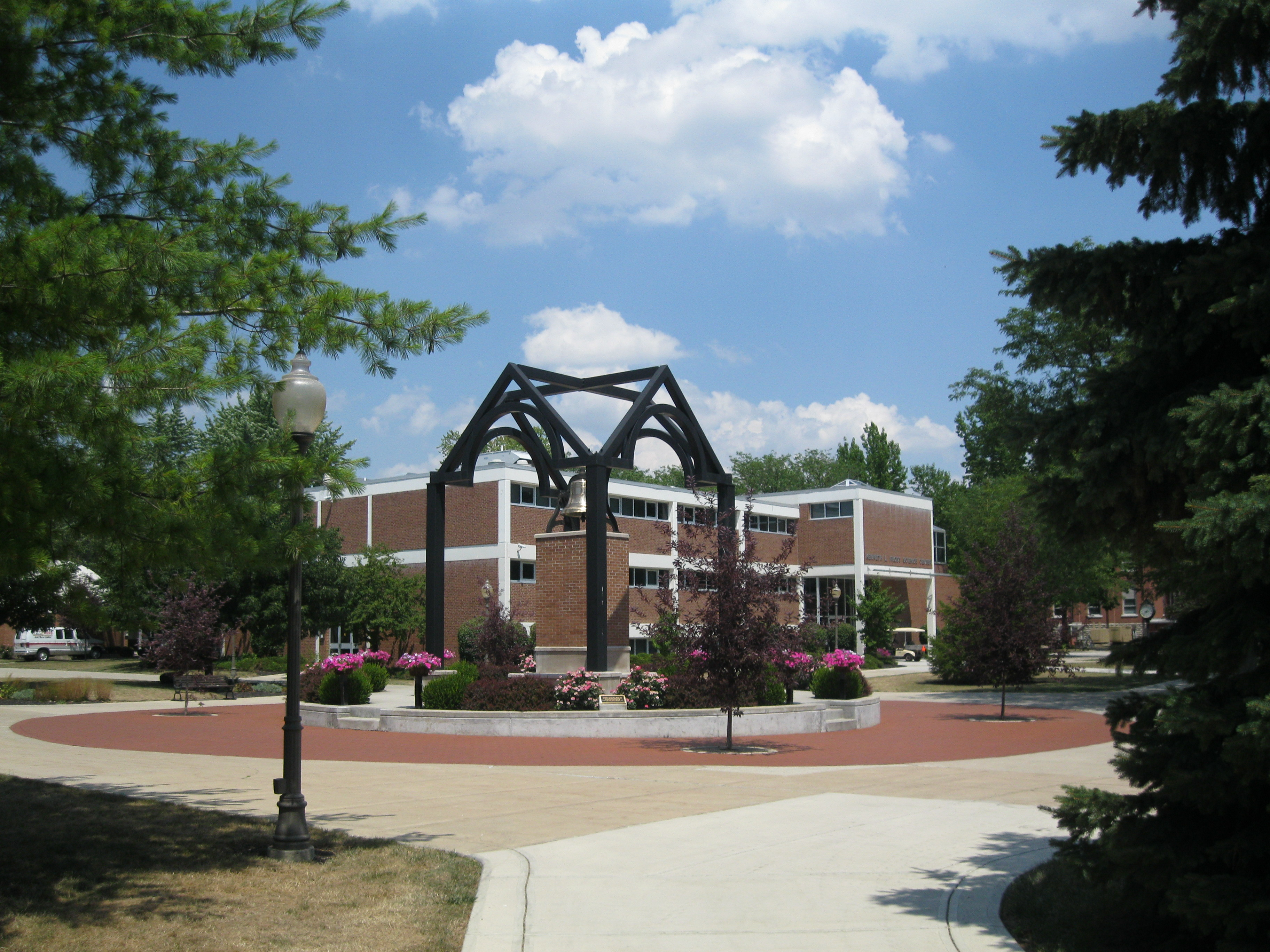 Science building and bell from Old Main on the campus of the University of Findlay in Findlay, Ohio, USA.